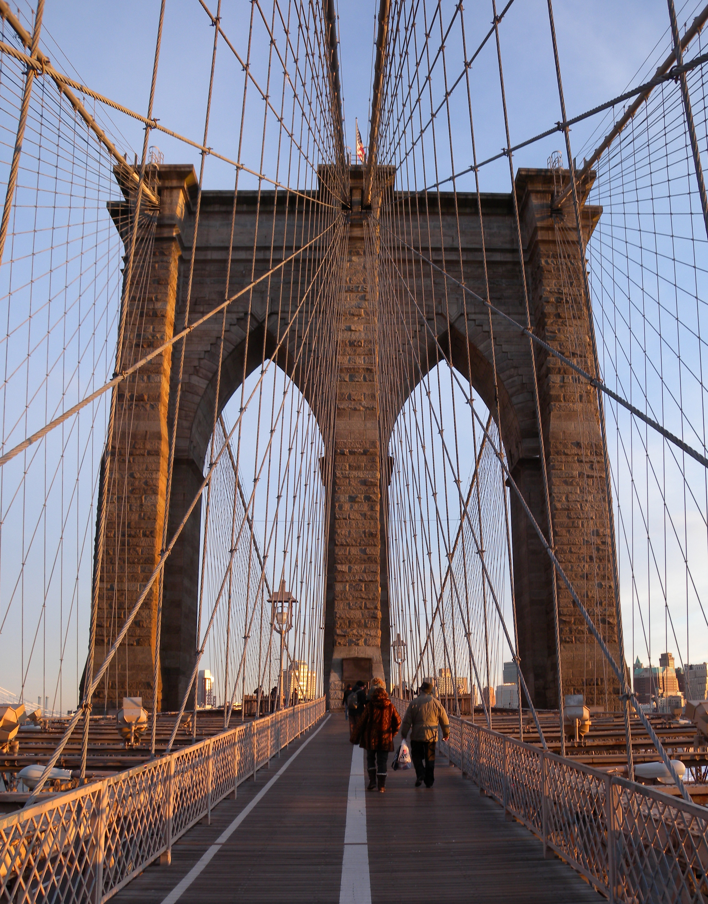 Looking southeast along centerline of Brooklyn Bridge shortly before dusk of a sunny day.